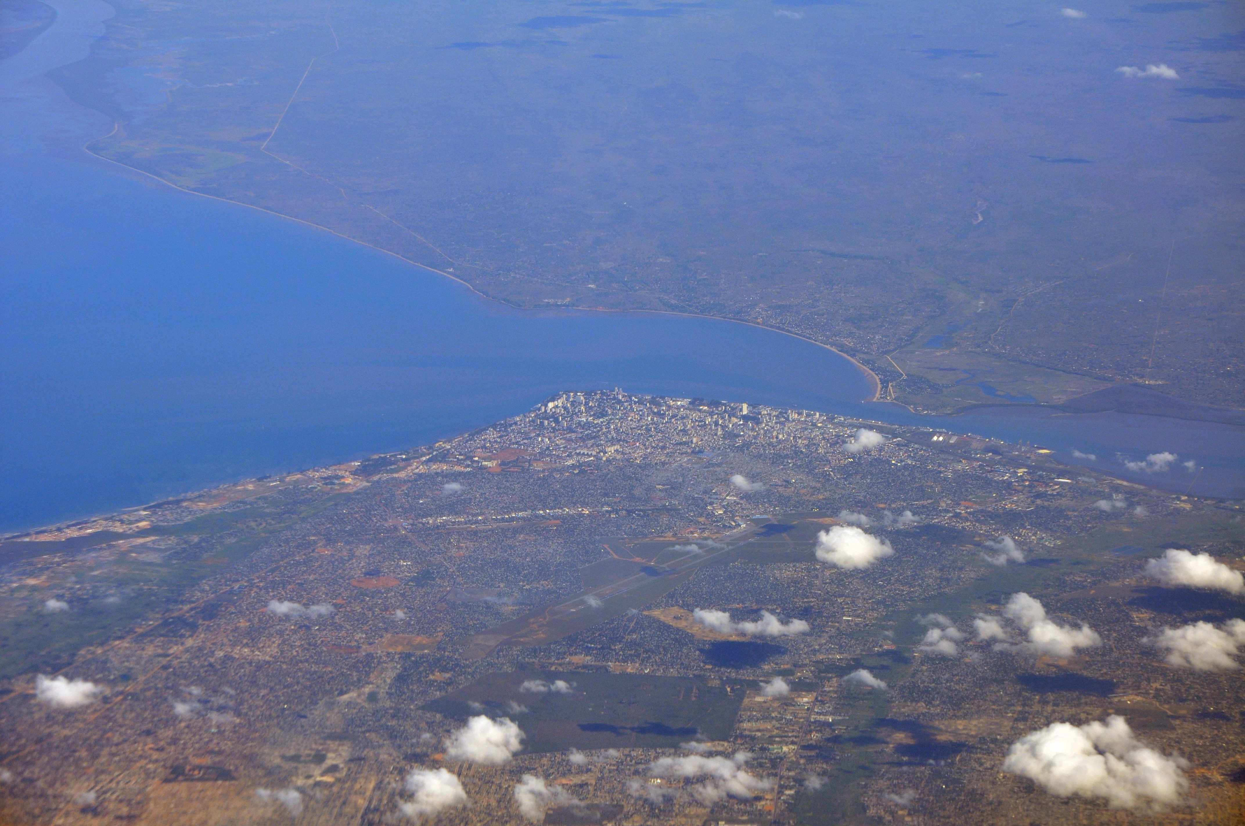 Mozambique, Aerial view of Maputo